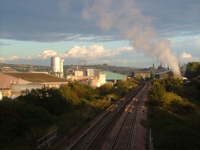 Railway line at Marsh Barton, Exeter Looking towards Exeter St Thomas from the bridge carrying Alphinbrook Road to Salmonpool canal bridge. On the right, a rendering plant; on the left, a small power station.